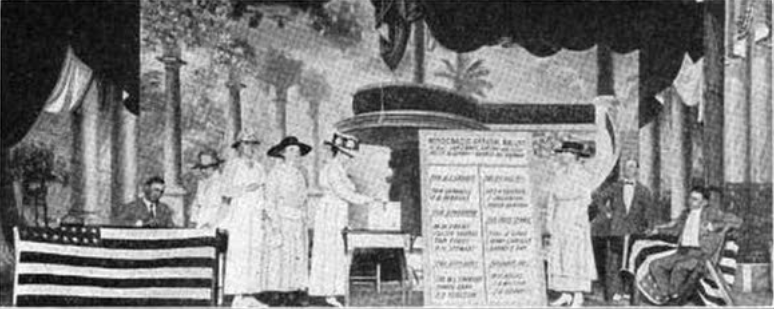 "The Woman Citizen" All Red-Blooded American Women Want Citizenship